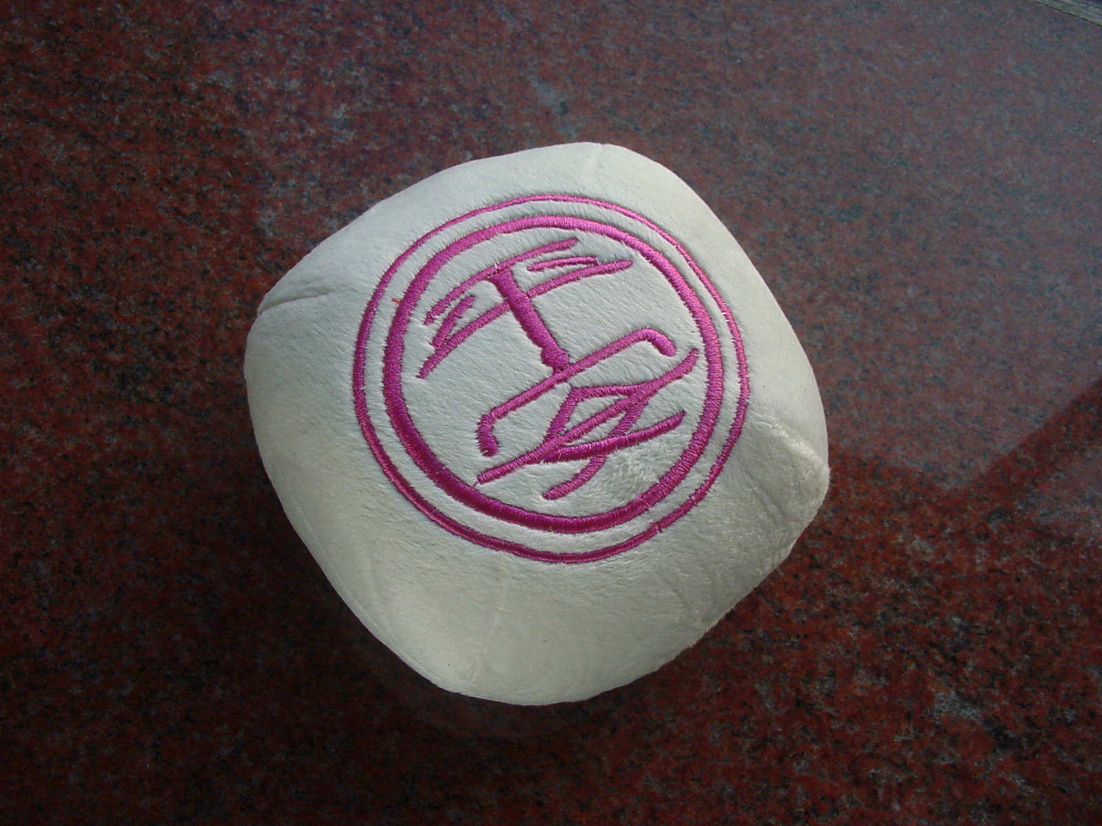 Display device cleaner, an appearance-imitating derivative product of lucky bun (ping-on bun) on Cheung Chau island, Hong Kong